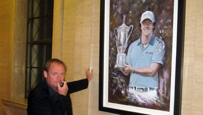 Solo Exhibition 'Open Champions'. Stormont 2011. Photo shows Mark Robinson and one of his original portraits, Rory McIlroy